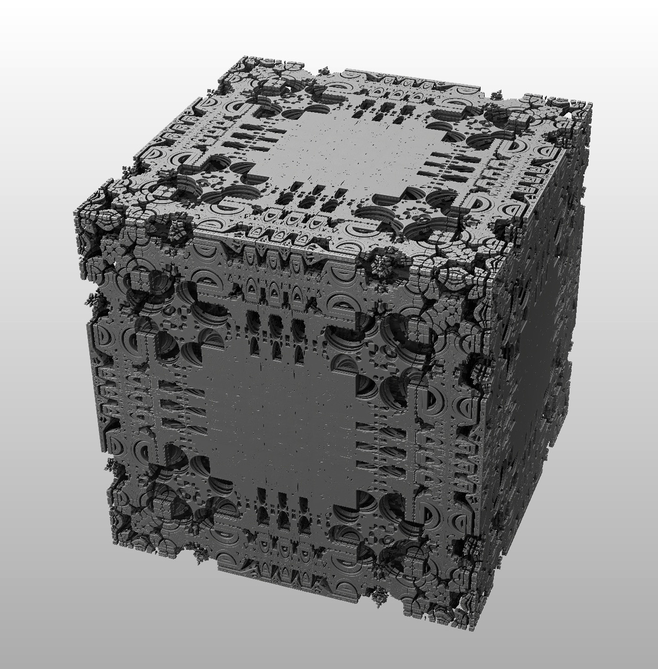 Standard Mandelbox, scale=2, r=0.5. see Ref